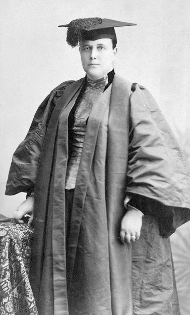 Portrait of Edith Pechey-Phipson (1845–1908), physician